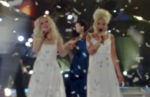 Finnish female folk duo Kuunkuiskaajat performing in the Finnish national selection, Euroviisut, in Tampere for the Finnish entry to the Eurovision Song Contest 2010.